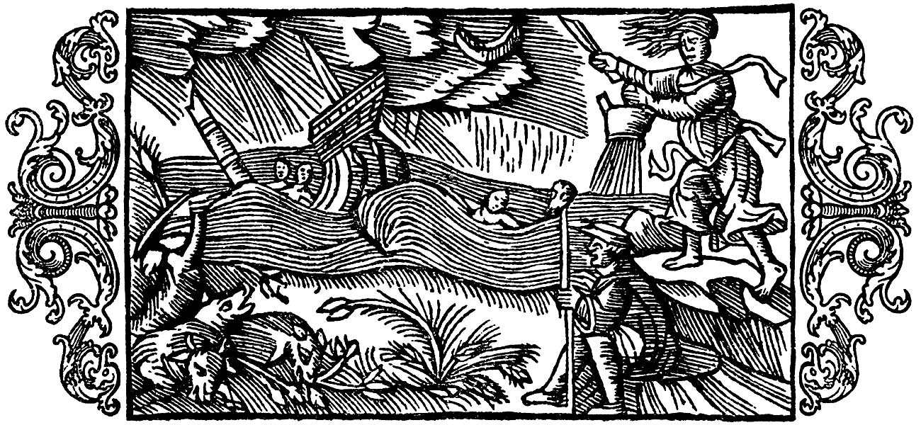 The witch to the right develops a terrible storm by emptying her pot with magic potion into the sea. A ship is wrecked in the storm. A man is holding her magic pole with a horse head on top. The moon is darkened by her magic force.